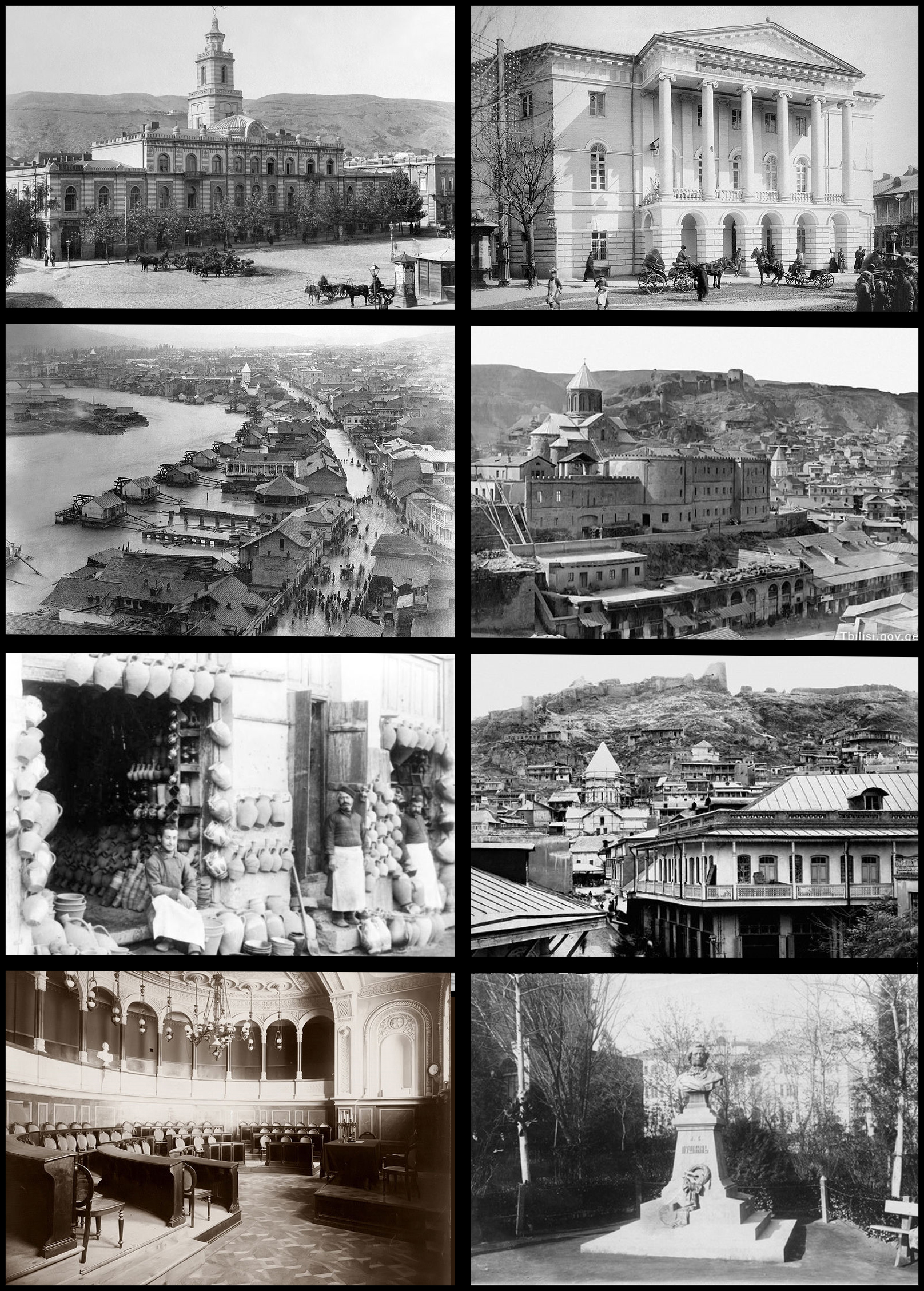 Tbilisi in XIX century, Hotel "Palace", Freedom Square. The Tbilisi Orthodox Theological Seminary. The main facade.